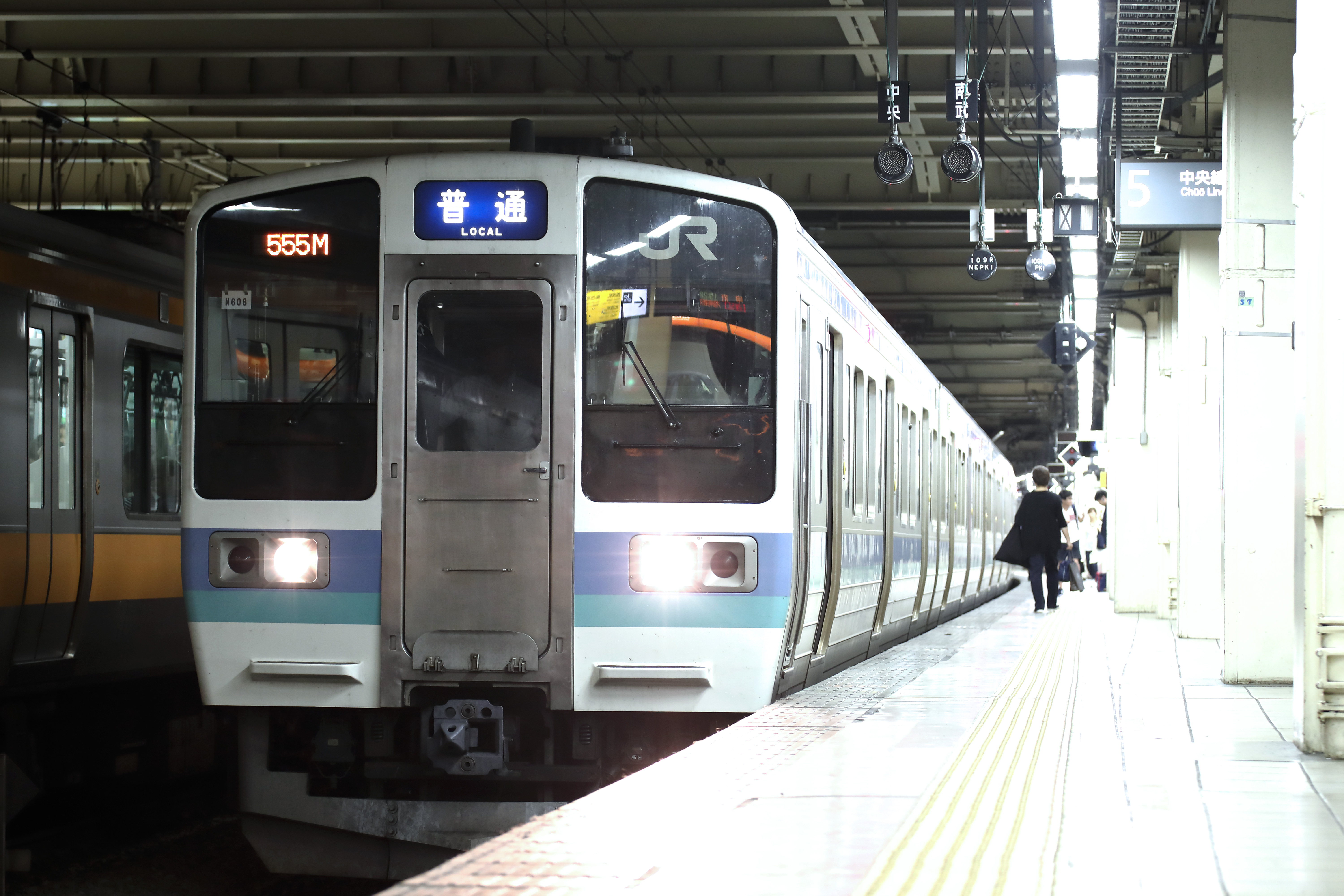 JR East 211 series EMU set N608 in Nagano area livery at Tachikawa Station in Tokyo